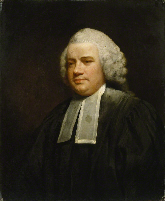 Portrait of John Dunning (1731-1783) (after 1782 1st Baron Ashburton), studio of Sir Joshua Reynolds, circa 1774, oil on canvas, 29 7/8 in. x 24 3/8 in. (760 mm x 620 mm), National Portrait Gallery, London: NPG 102. Provenance: Given by Thomas Baring, 1860